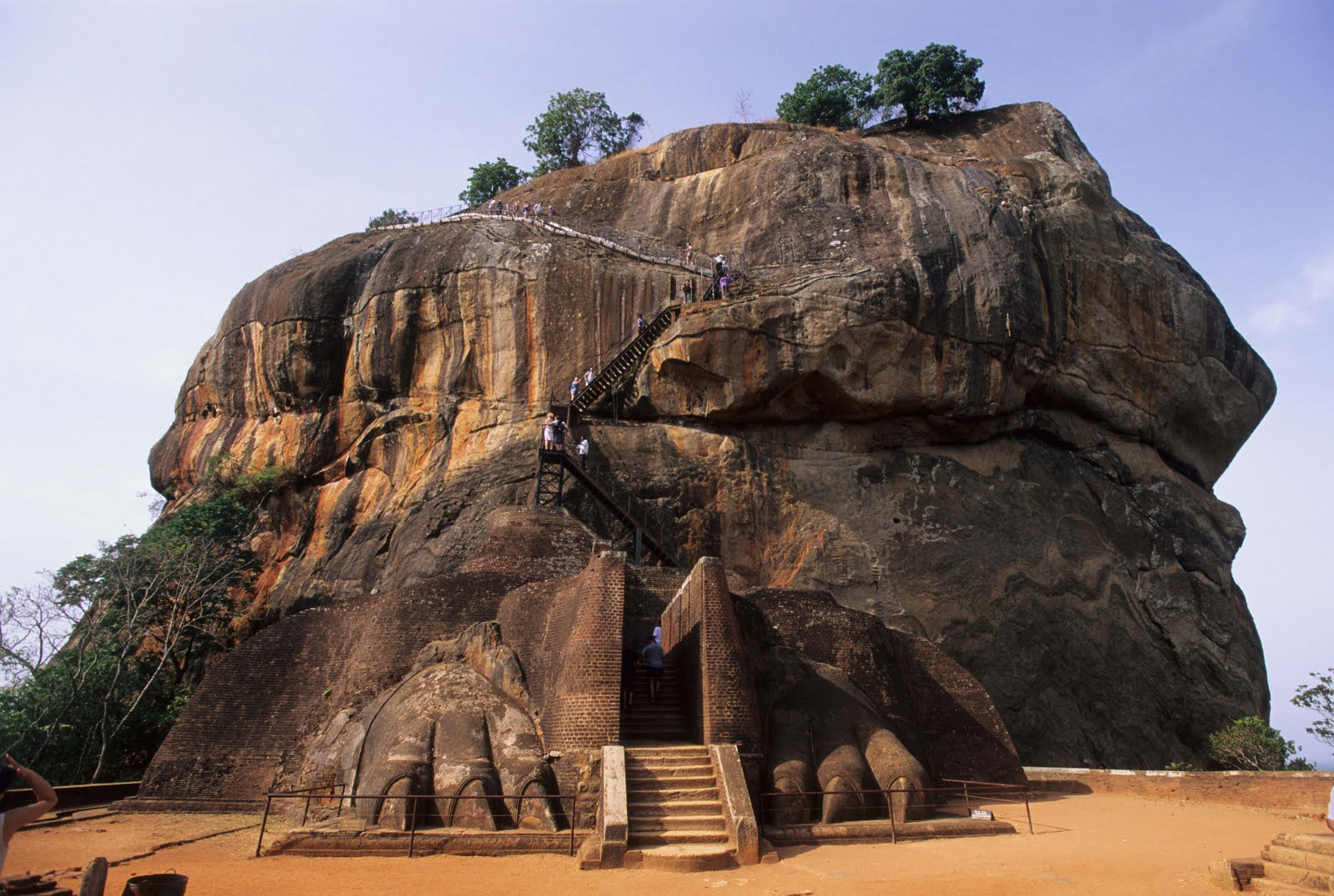 Sigiriya Rock Fortress